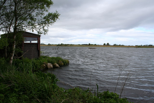 Bird Watchers Hut on Loch Spynie. Loch Spynie is found in close proximity to Spynie Castle and is a haven for a diverse range of visiting birds throughout the year.